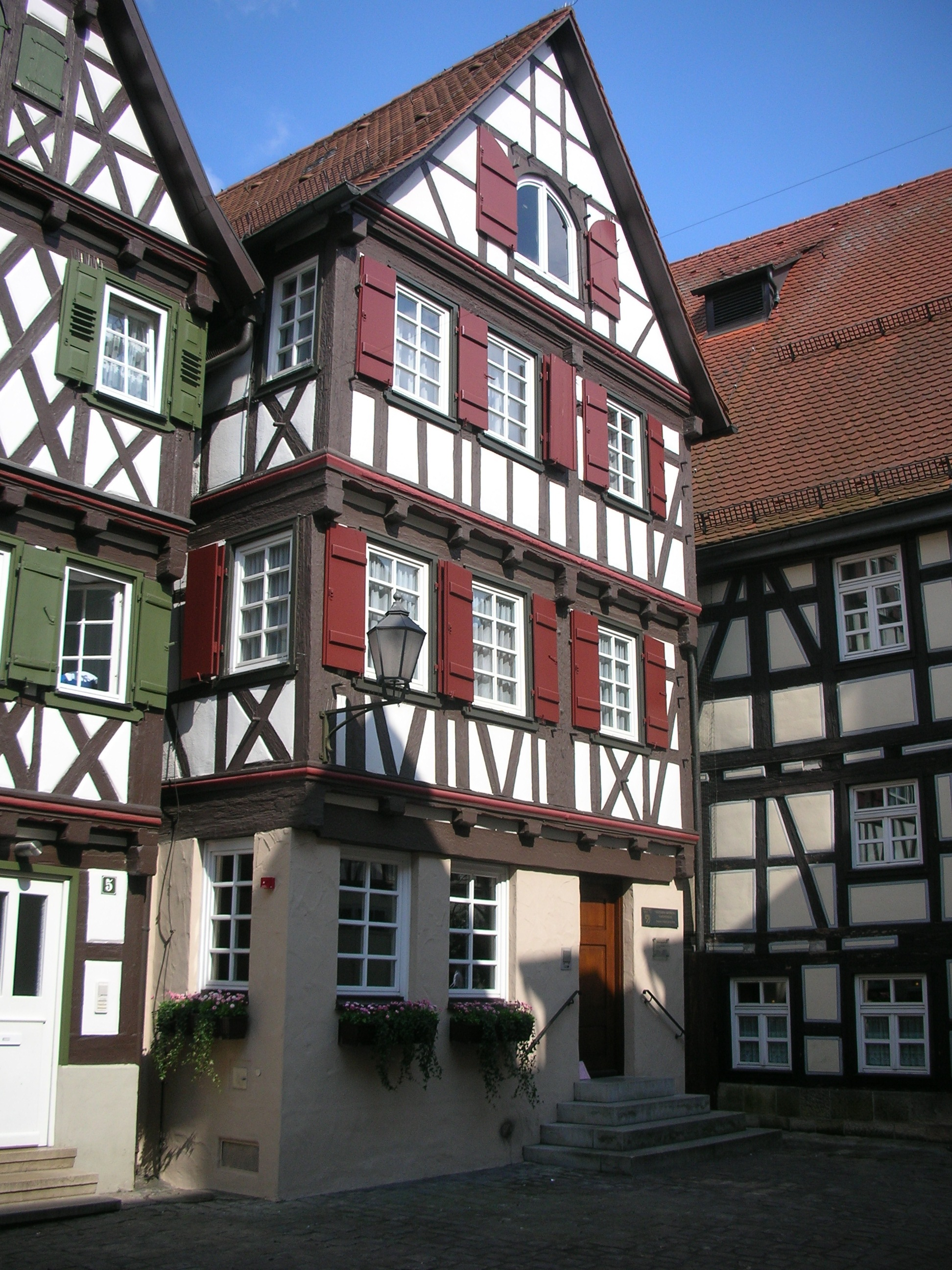 Schorndorf, Germany: The house where Gottlieb Daimler has been born